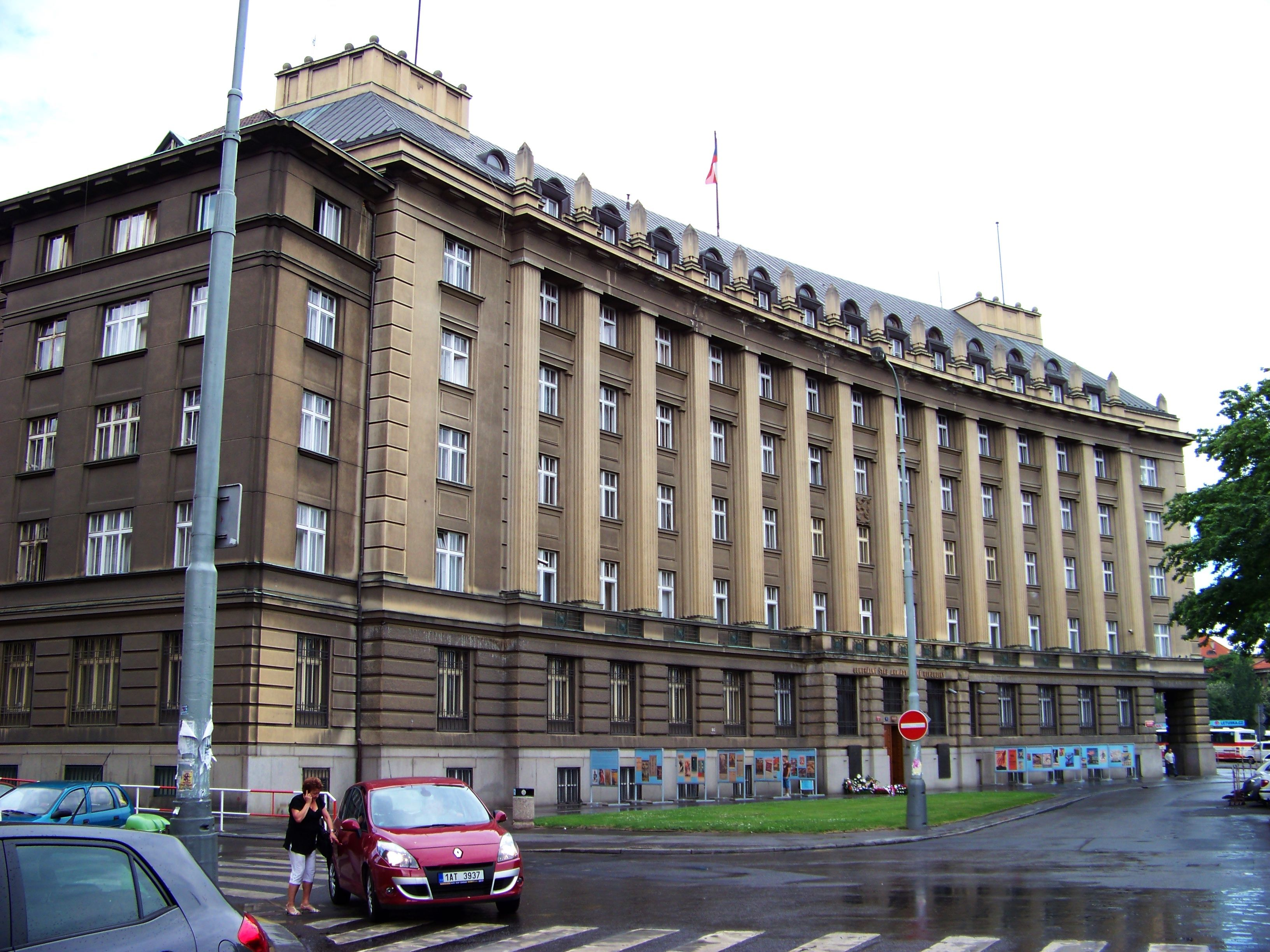 Prague-Dejvice, the Czech Republic. Vítězné Square, a generality office of the Czech Army. - Google Maps - Google Earth